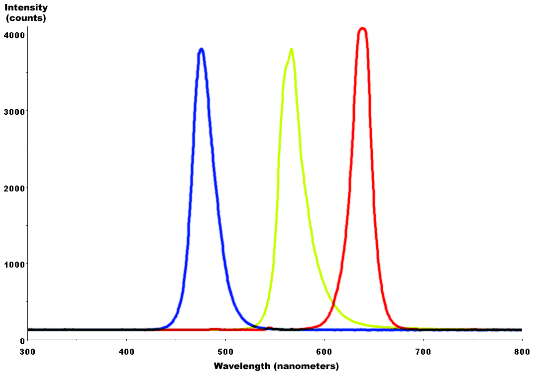 Combined spectra of a common blue LED, a yellow-green LED and a high brightness red LED from the bottom of a microsoft optical mouse. The spectra have been cleaned up a bit in photoshop to anti-alias the curves but this has not appreciably changed the data to any noticeable degree. I took these spectra on an Ocean Optics HR2000 spectrometer [1]. Individual spectra from [Image:Yellow-Green LED Spectrum.gif], [Image:Red LED Spectrum .gif], [Image:Blue LED Spectrum.gif].